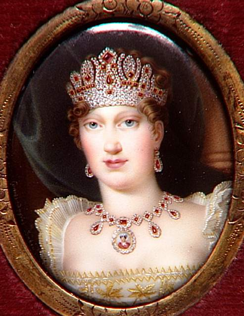 Marie Louise of Austria, Empress of the French